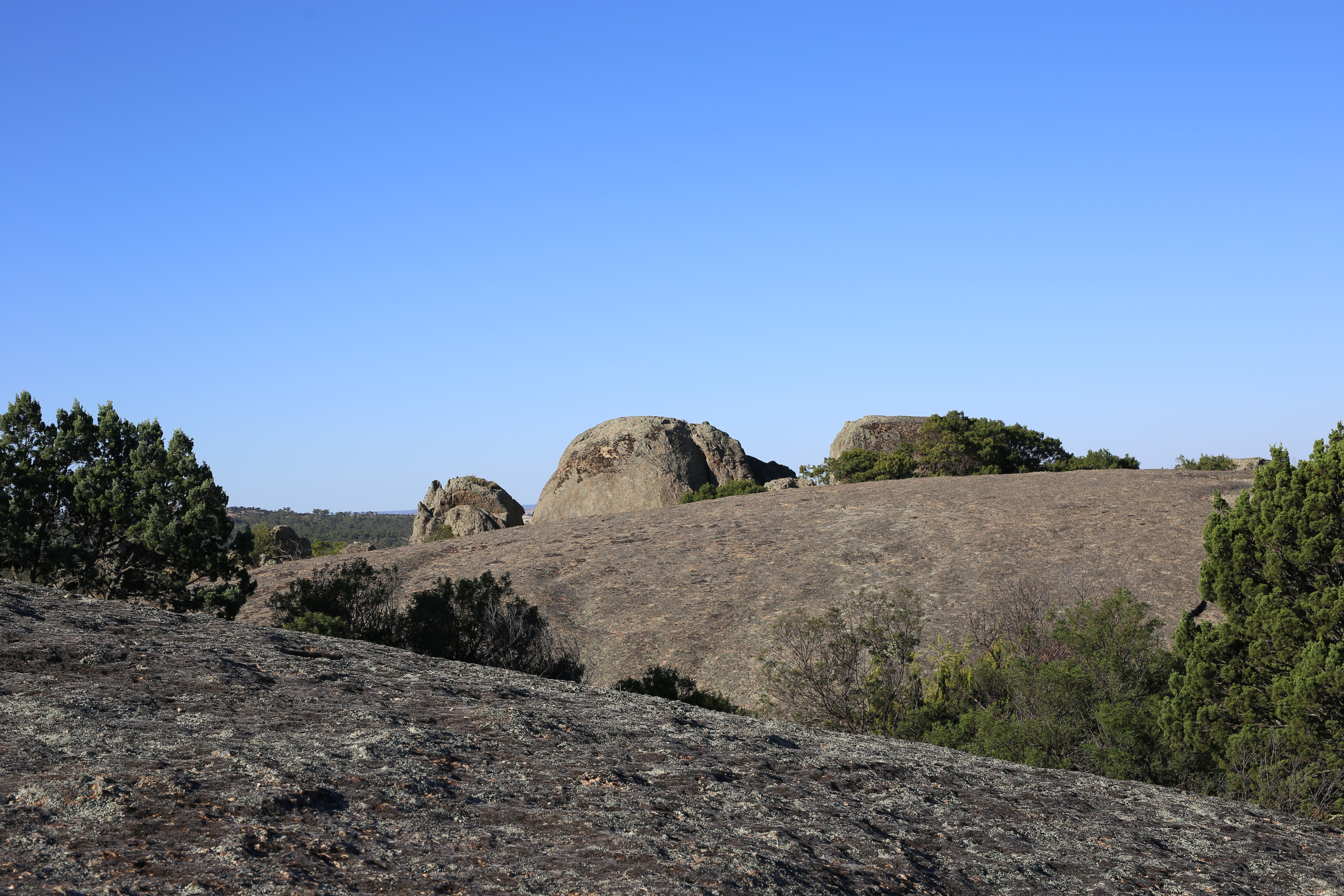 Terrick Terrick National Park, VIC, Australia, 21 January 2017